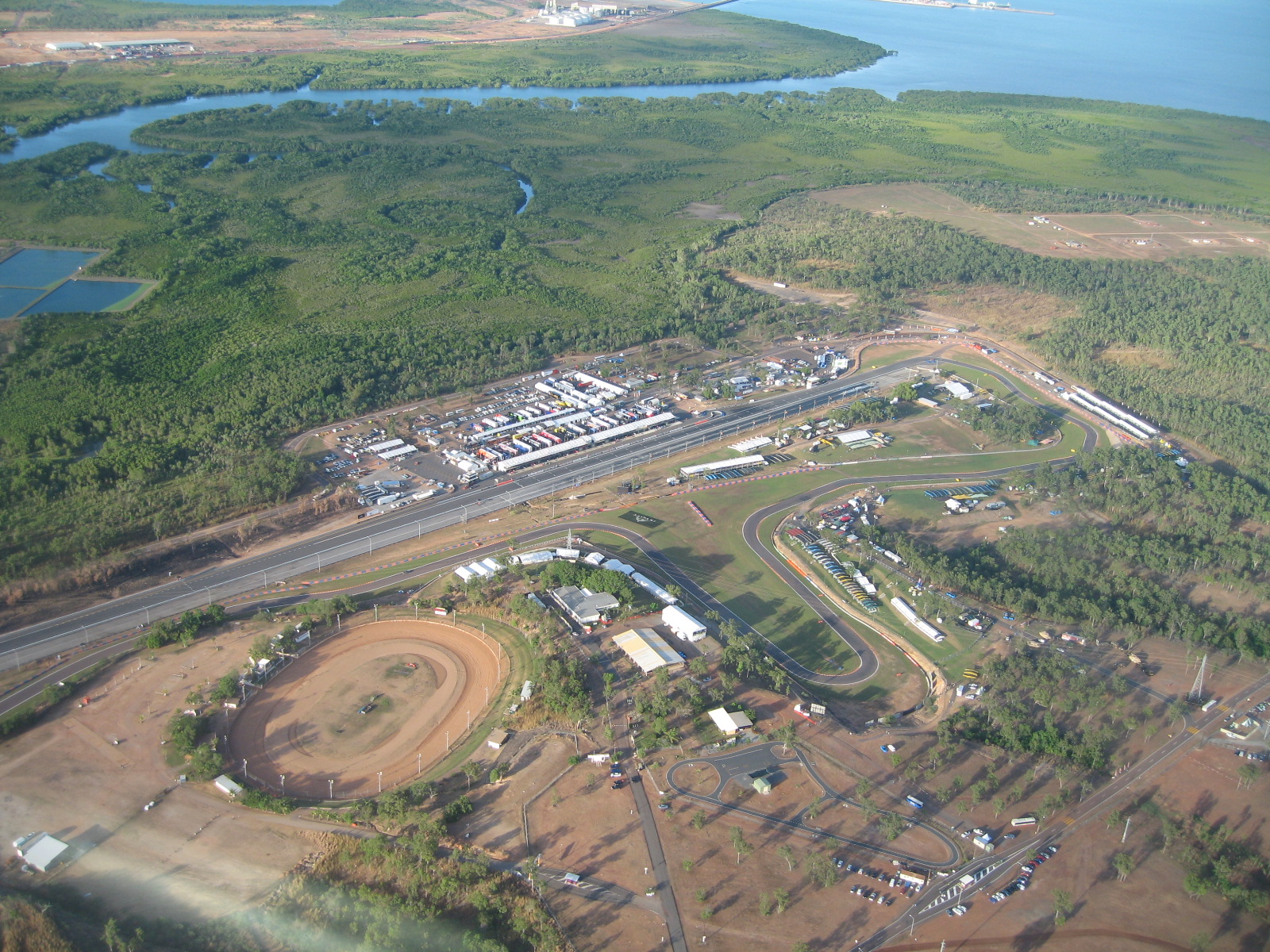 Aerial view of Hidden Valley Raceway.